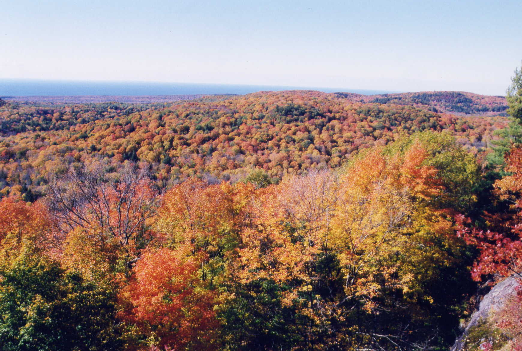 Autumn Blaze - Porcupine Mountains, Lake Superior